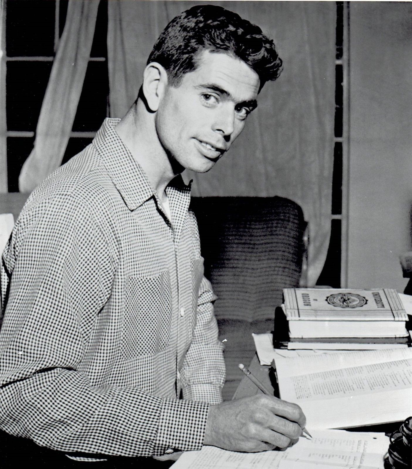 1956 Wire Photo track star Jim Bailey of University of Oregon Ducks Team studies